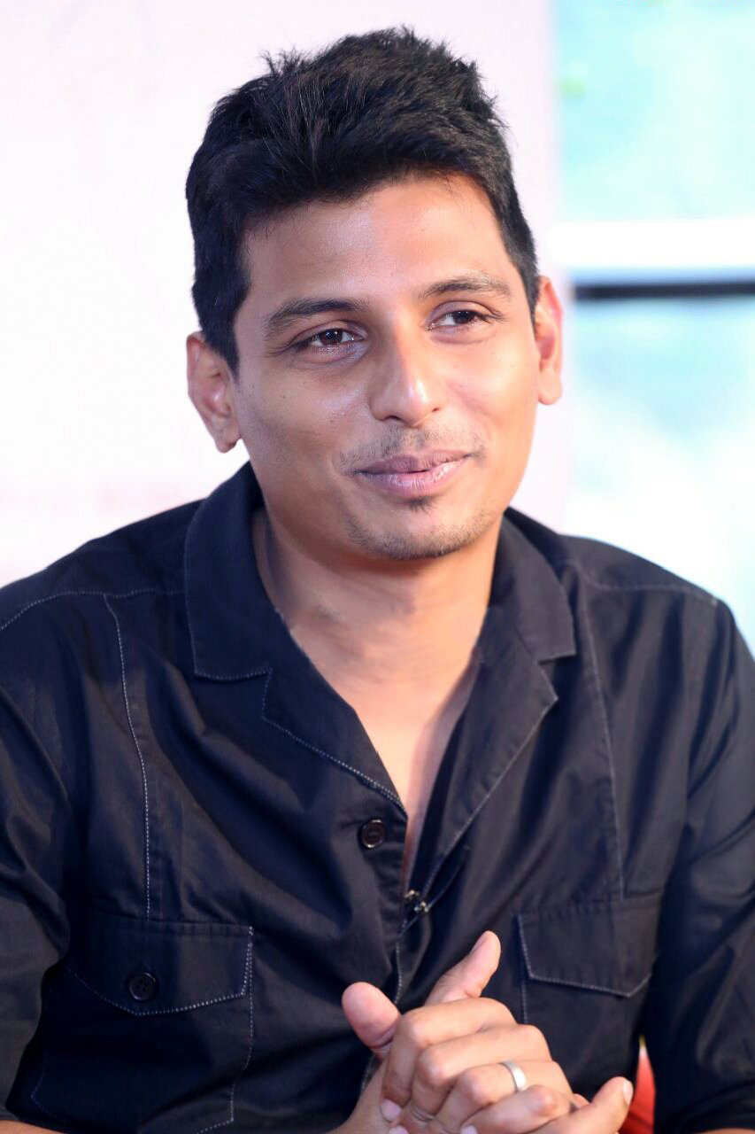 Actor Jiiva at Yaan Meet and Greet Event